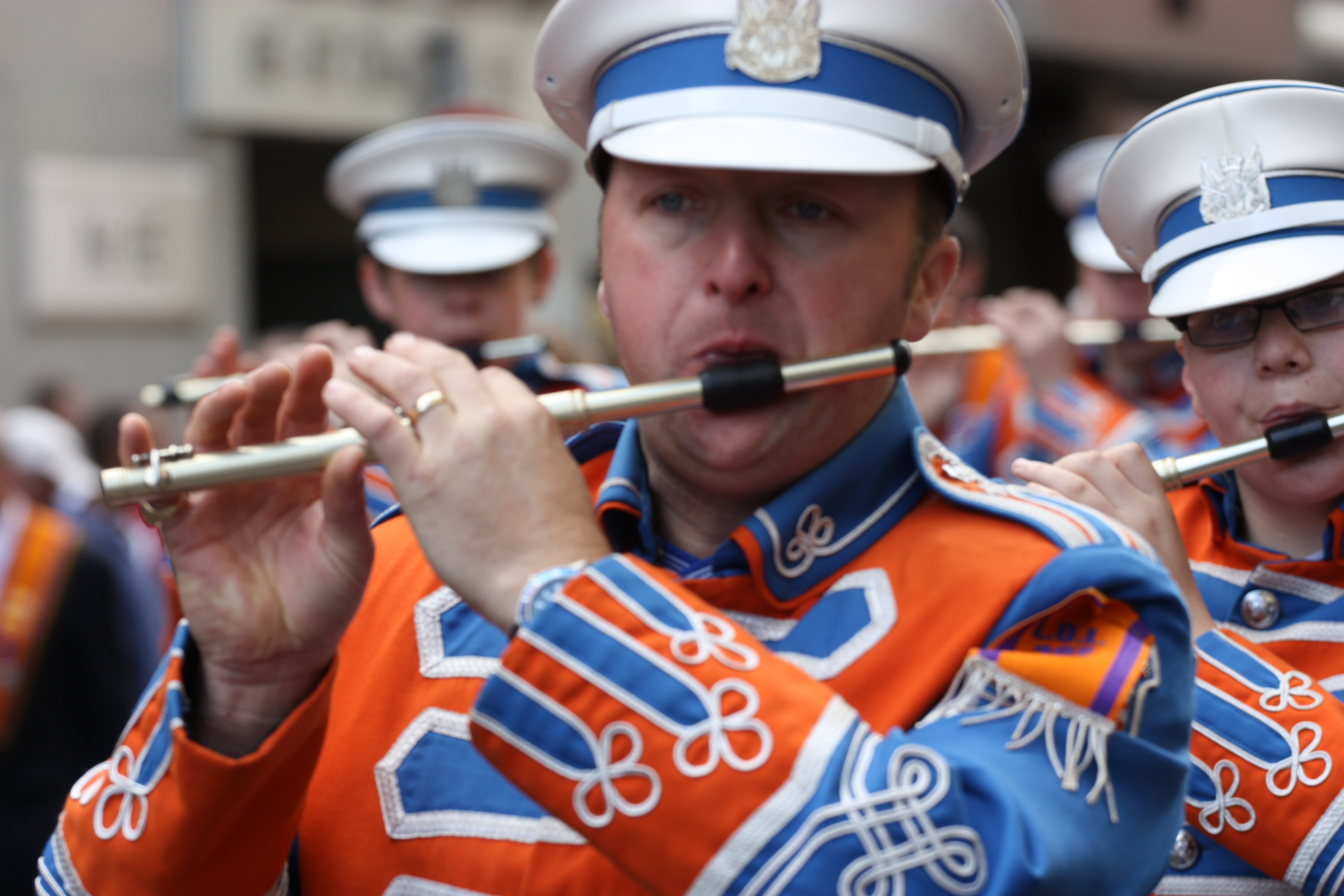 Bandsman, Ulster Covenant Commemoration Parade, Chichester Street, Belfast, Northern Ireland, September 2012